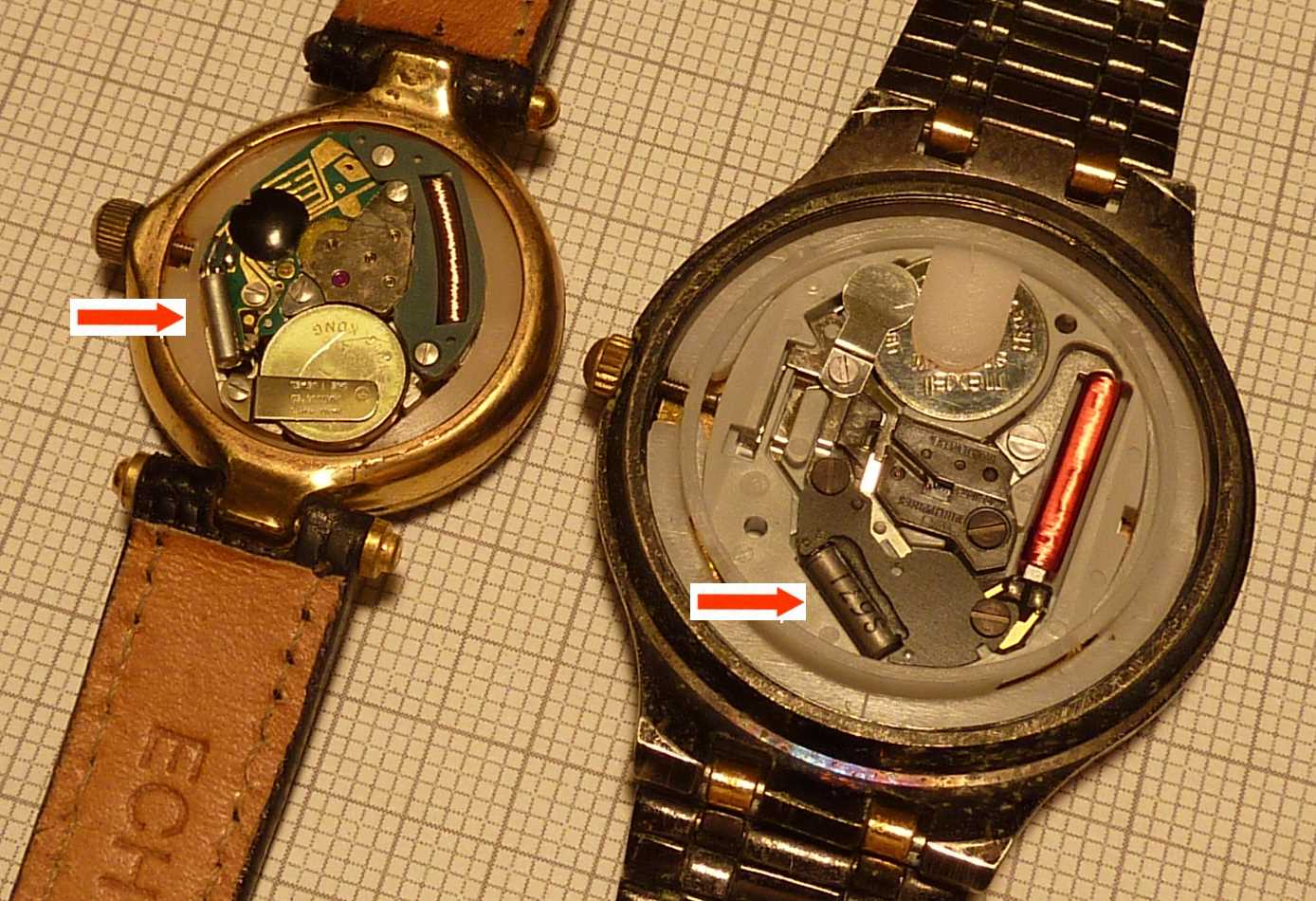 Two quartz watches with their case backs removed, showing works. The arrows point to the quartz crystal resonator units, which keep time for the watches.